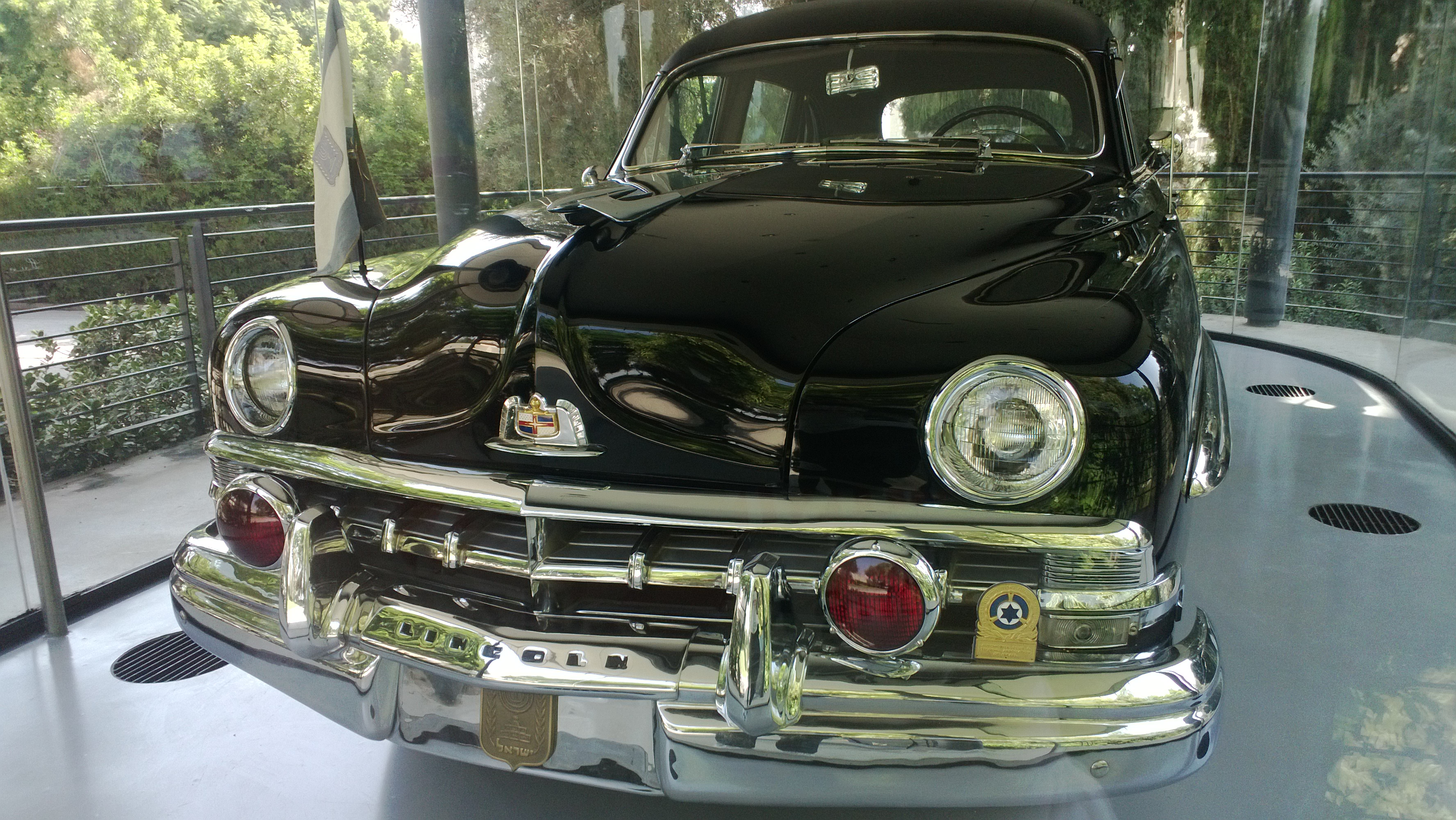 Beit Weizmann